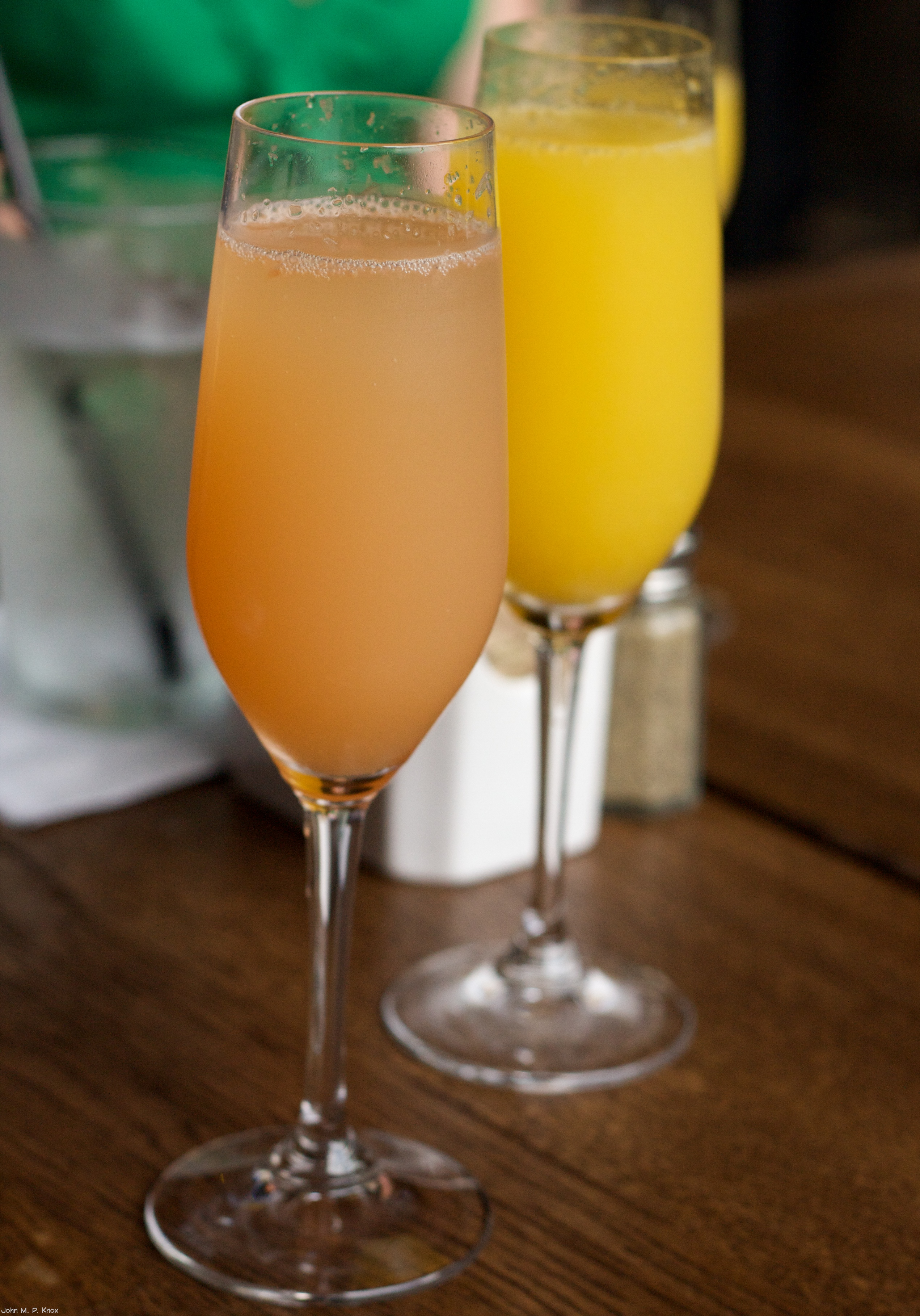 Mimosas made from mixing fruit juices and sparkling wine. Taken at Max's Wine Dive, Austin, TX